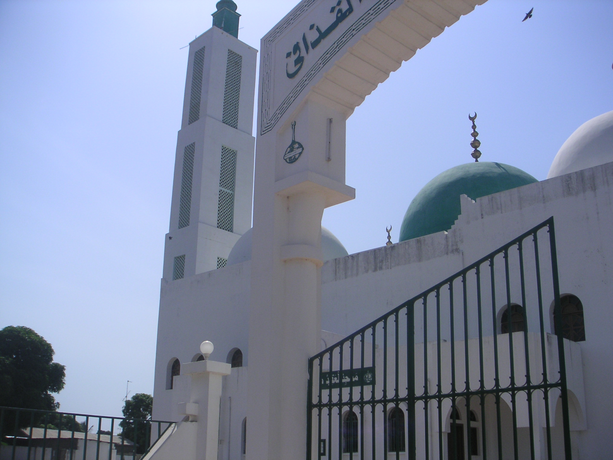 Mosque in Serekunda, The Gambia.